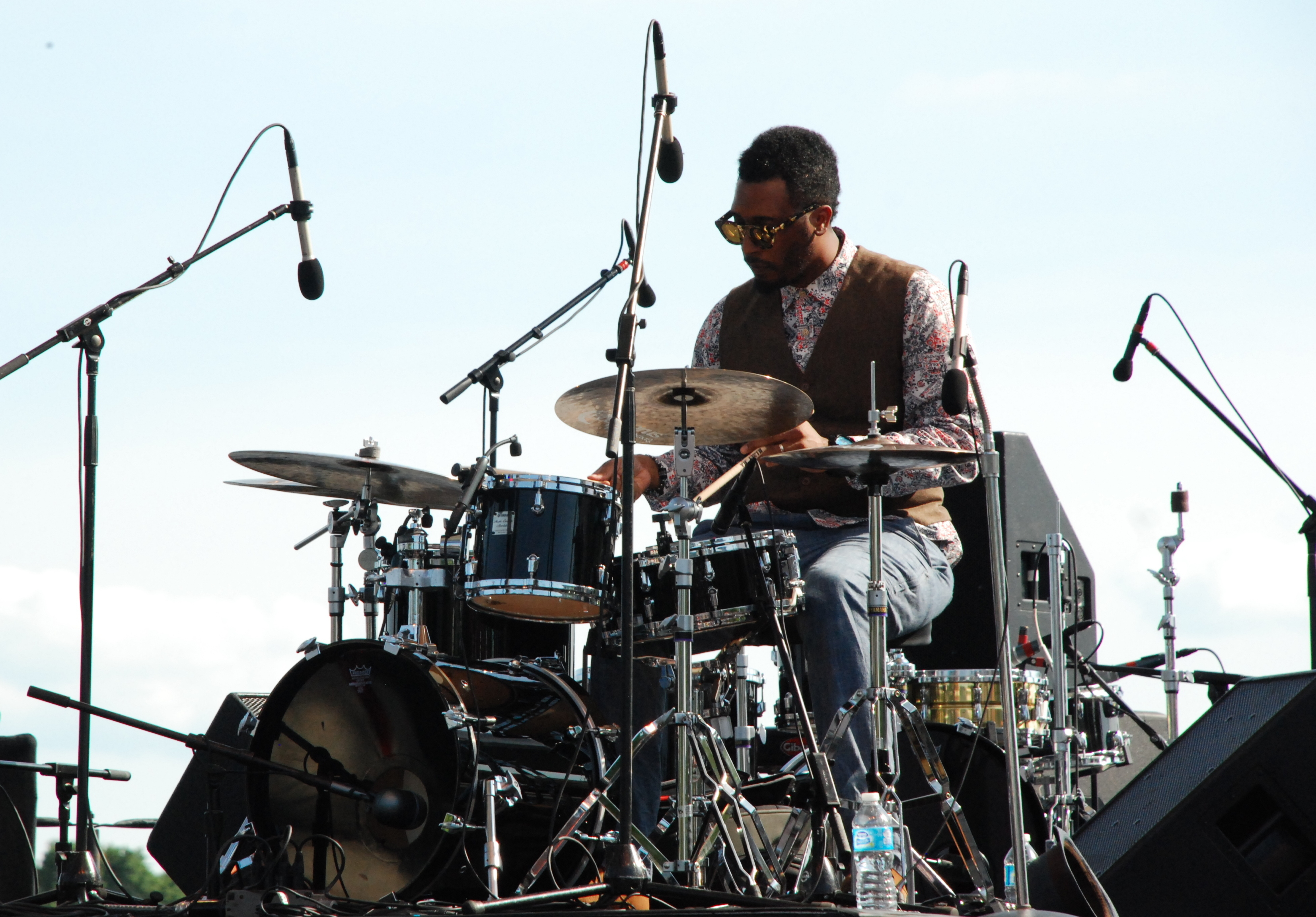 Emanuel Harrold (from Gregory Porter's band) at D.C. Jazz Festival 2014.